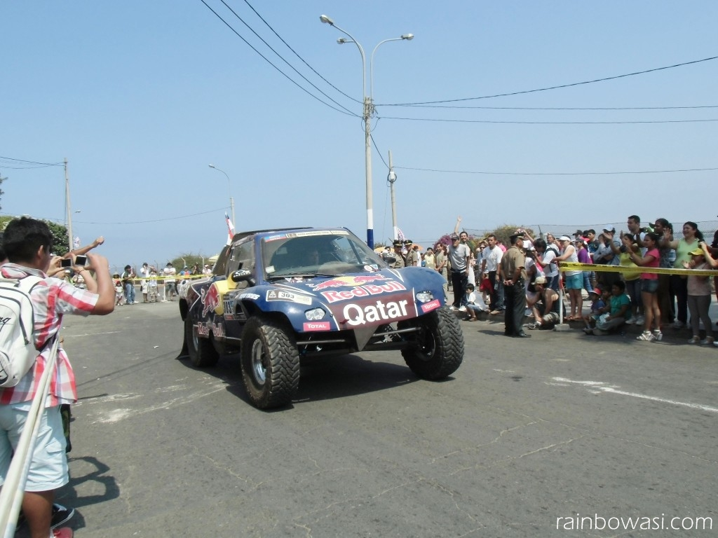 Carlos Sainz on Demon Jefferies Buggy during first stage of 2013 Dakar Rally